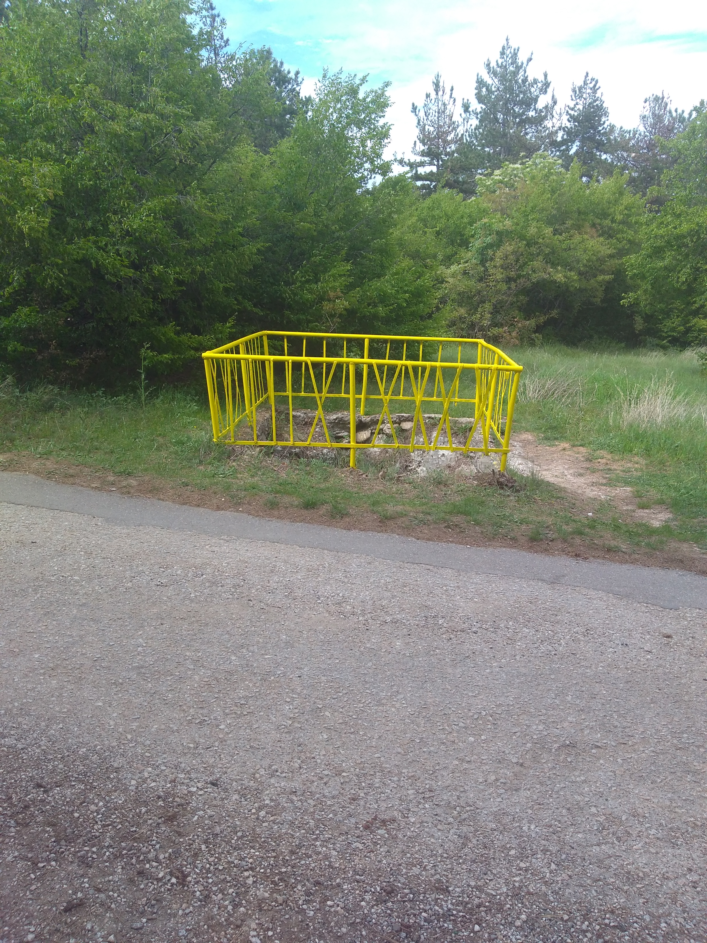 Dupkata cave